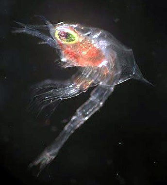 The zoea larva of a blue king crab, Paralithodes platypus.